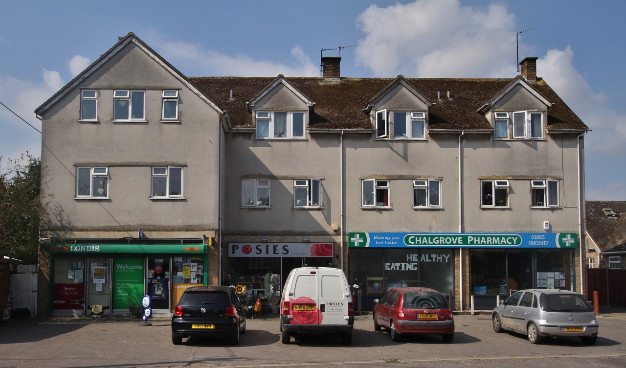 60–66 High Street, Chalgrove, Oxfordshire, seen from north-northeast.